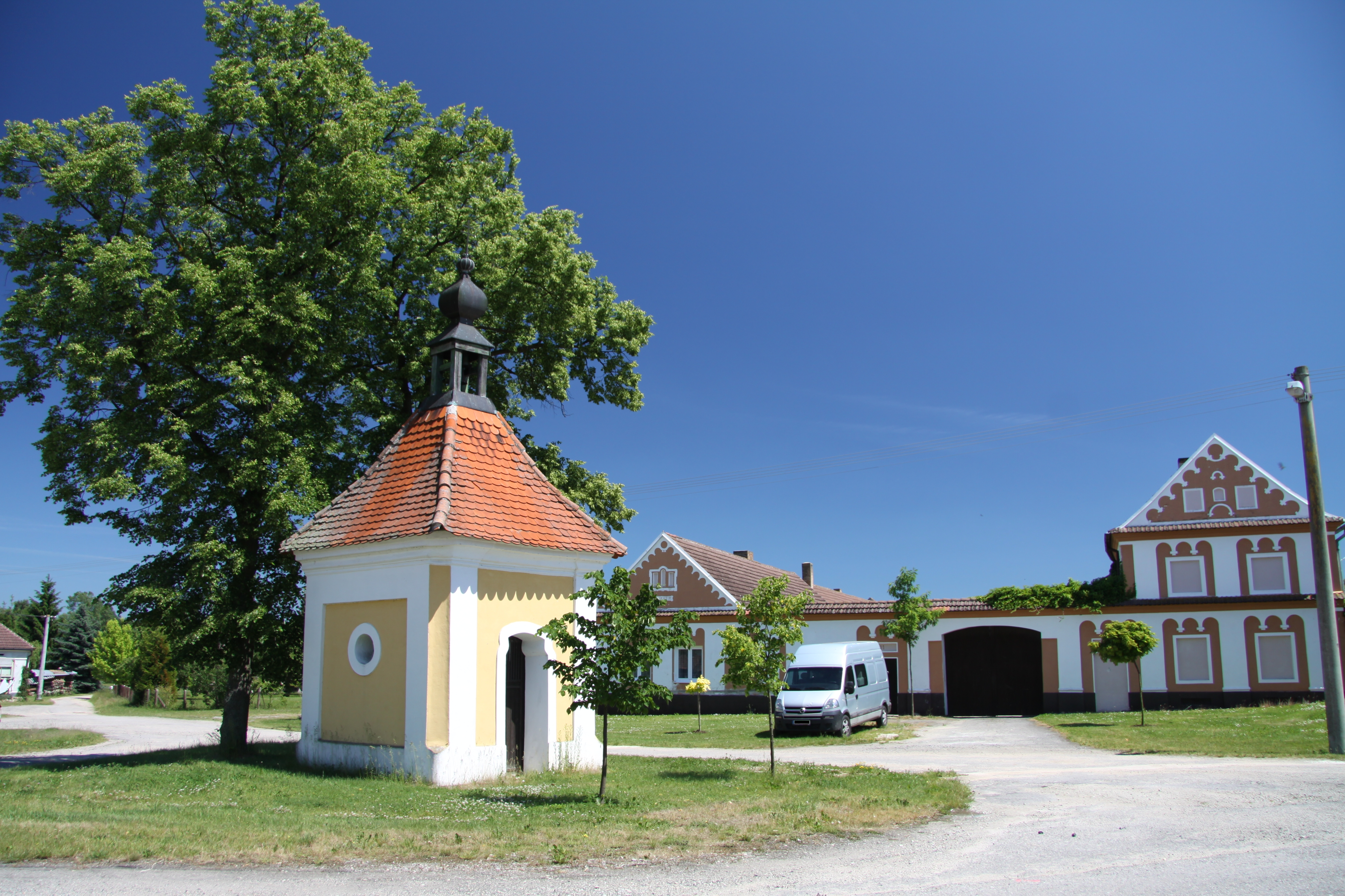 Lhota u Dynína village, part of Dynín village in České Budějovice District, Czech Republic